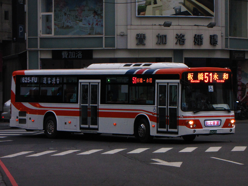 51 6FU